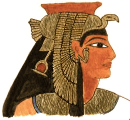 A New Kingdom Queen with vulture headdress and modius